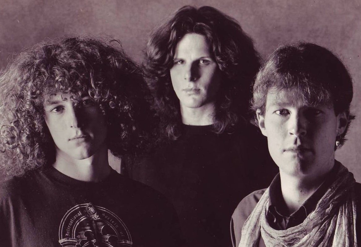 Music band 'Beans" 1987